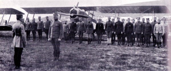 Serbian aviation on the Salonika front 1916-1918.